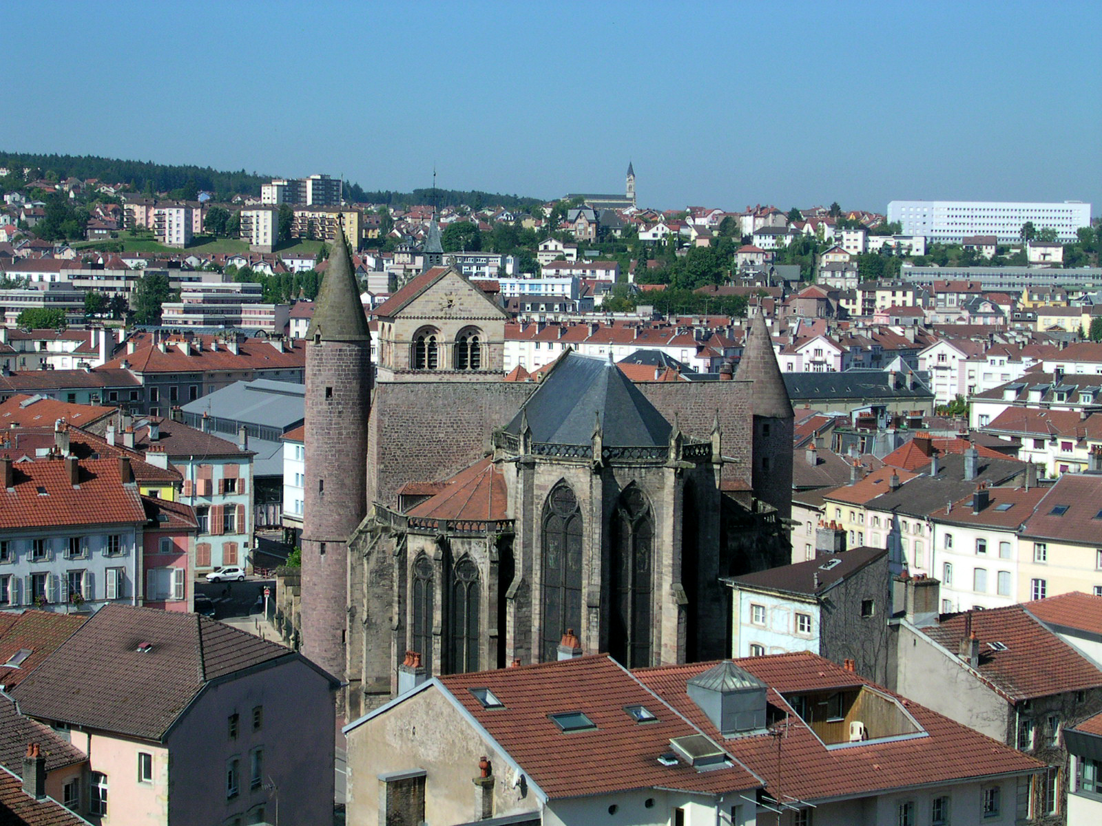 Saint Maurice basilica Epinal Picture taken by Romary August 17th 2005